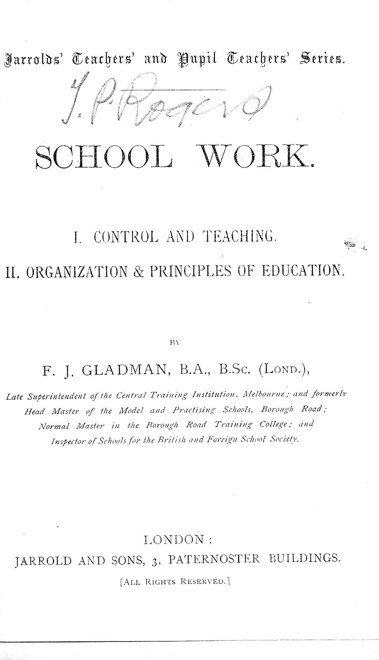 Gladman's School Work Inside Cover, with J P Rogers' handwriting